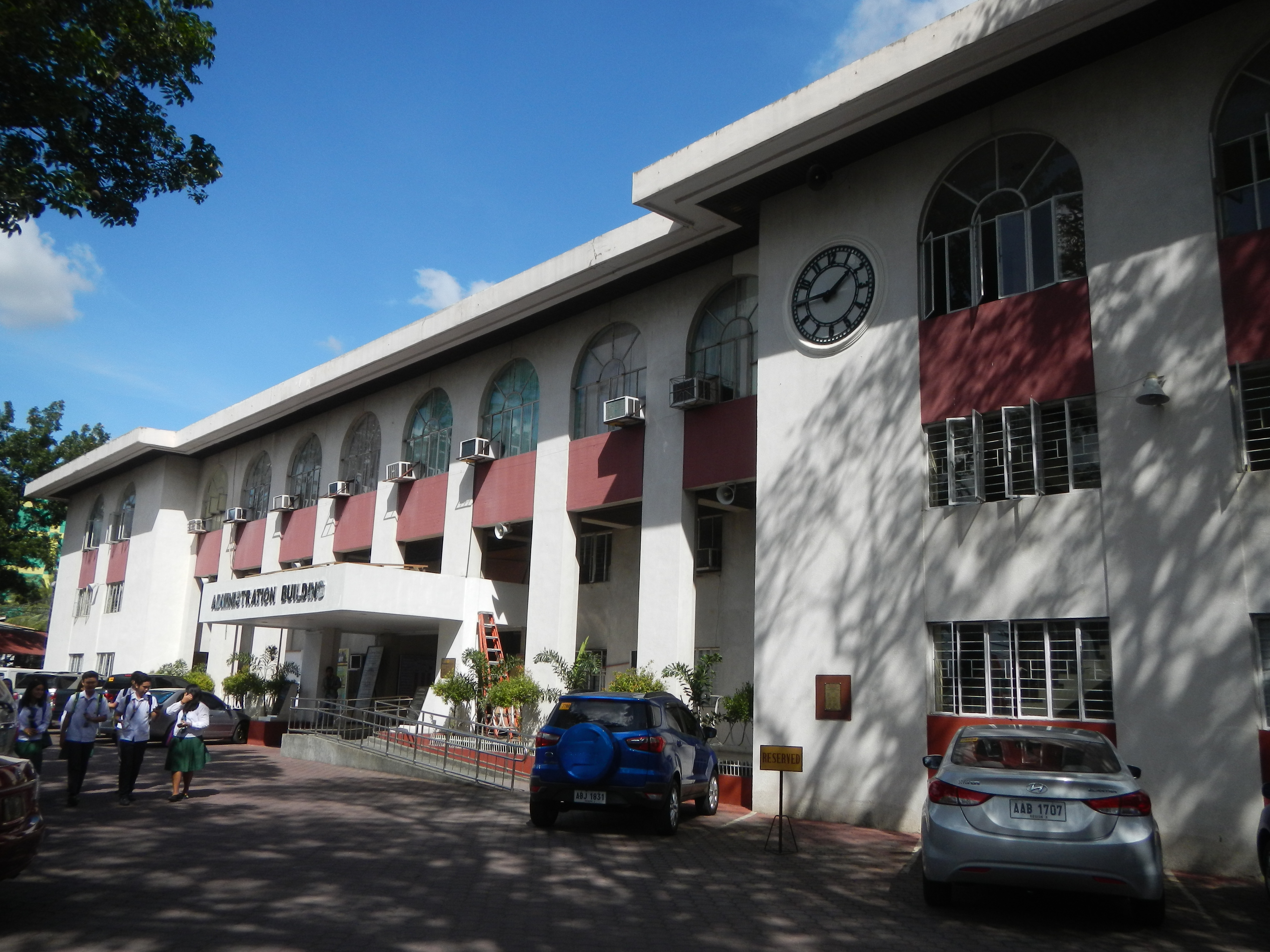 City Proper, Financial Centre and Downtown of List of Barangays in Tarlac, Barangays Cut-cut I and Cut-cut II, Tarlac City, Tarlac Province, (landmarks are the Magic Star, Tarlac State University, Gate I, Administration Building, in front, is its College of Computer Studies, also beside City Walk, beside San Vicente, Ecumenical Christian College, on one side and San Roque, Tarlac State University, Gate III, on the other side, leading to Santo Cristo, Robinsons Supermarket, San Jose, and San Manuel, Tarlac City, (from and along Romulo Highway formerly the National Highway 13, Carlos P. Romulo, also along the Romulo Boulevard or Romulo Boulevard (Tarlac City, Tarlac) connected by the Aquino Bridge (Tarlac City) from MacArthur Highway or Manila North Road).